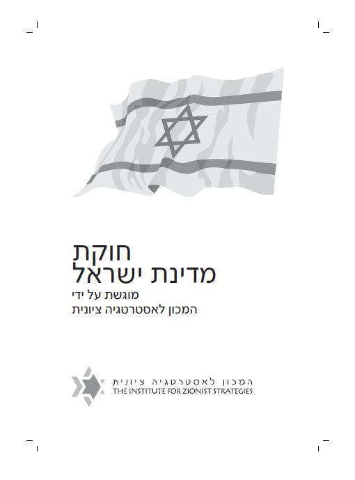 Cover Page of "Constitution of Israel proposed by the Institute for Zionist Strategies". A scanned copy.